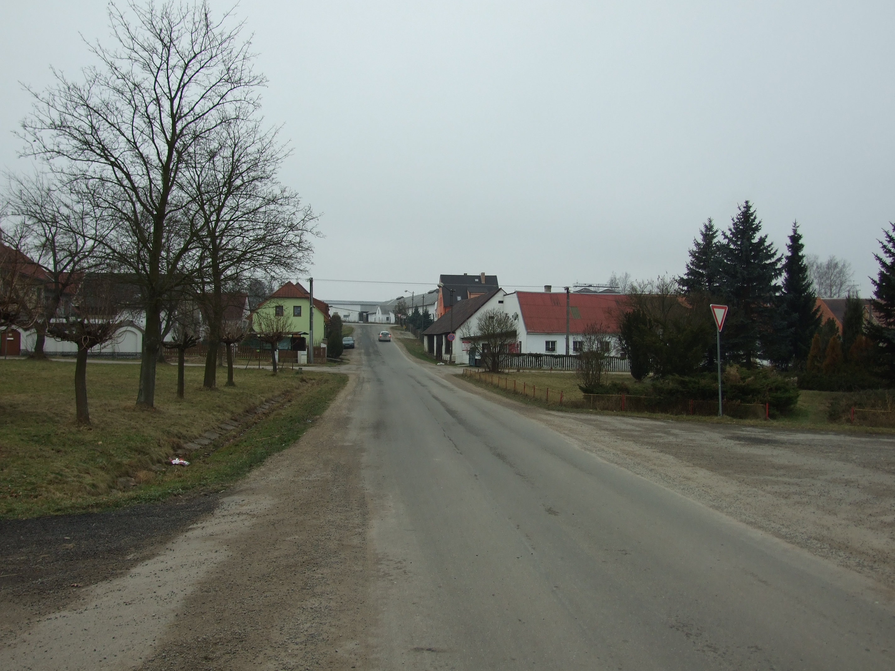 Hospříz, only a few kilometres east from Jindřichův Hradec, South Bohemian Region, CZhelp